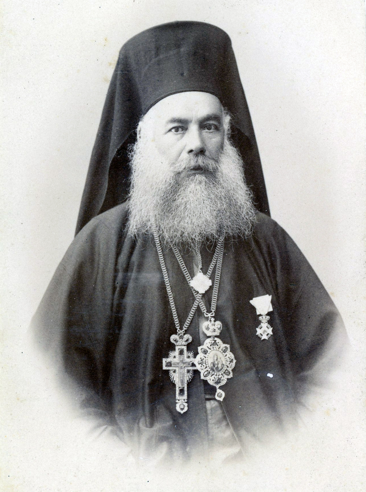 Prokopios II Archbishop of Athens and All Greece, 1901